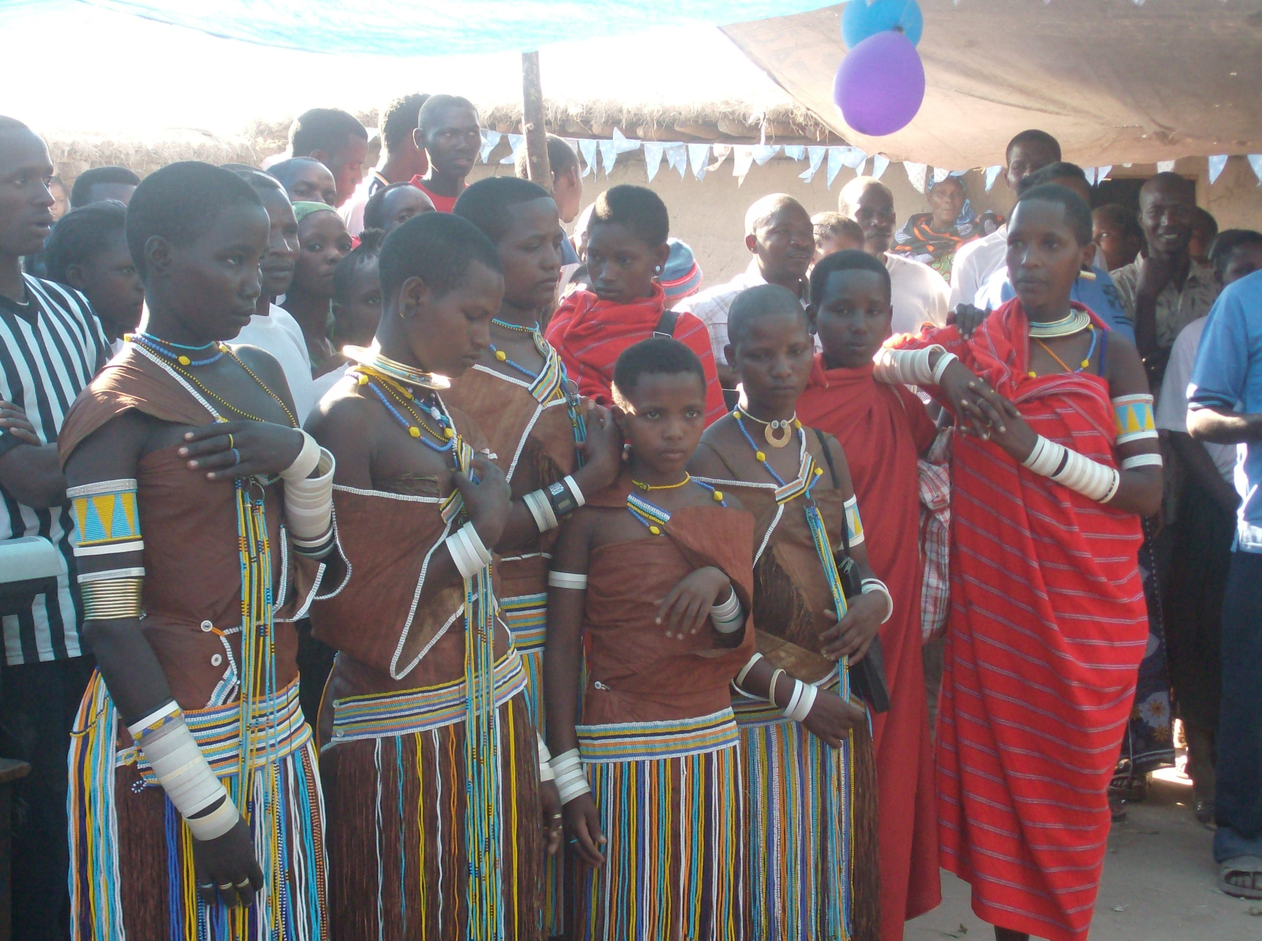 During the ceremony at Manyoni district located at Singida region (Tanzania) Gogo ladies dressed in their traditional dress.They perform cultural dance during ordination of priest Joseph Makasi. This photo has been taken in the country: Tanzania